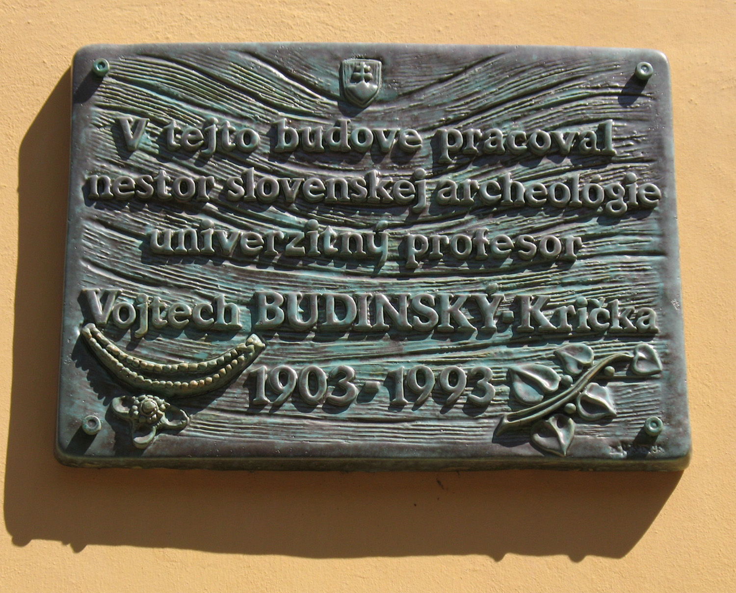 plaque of Vojtech Budinský-Krička in Košice Hrnčiarska ulica